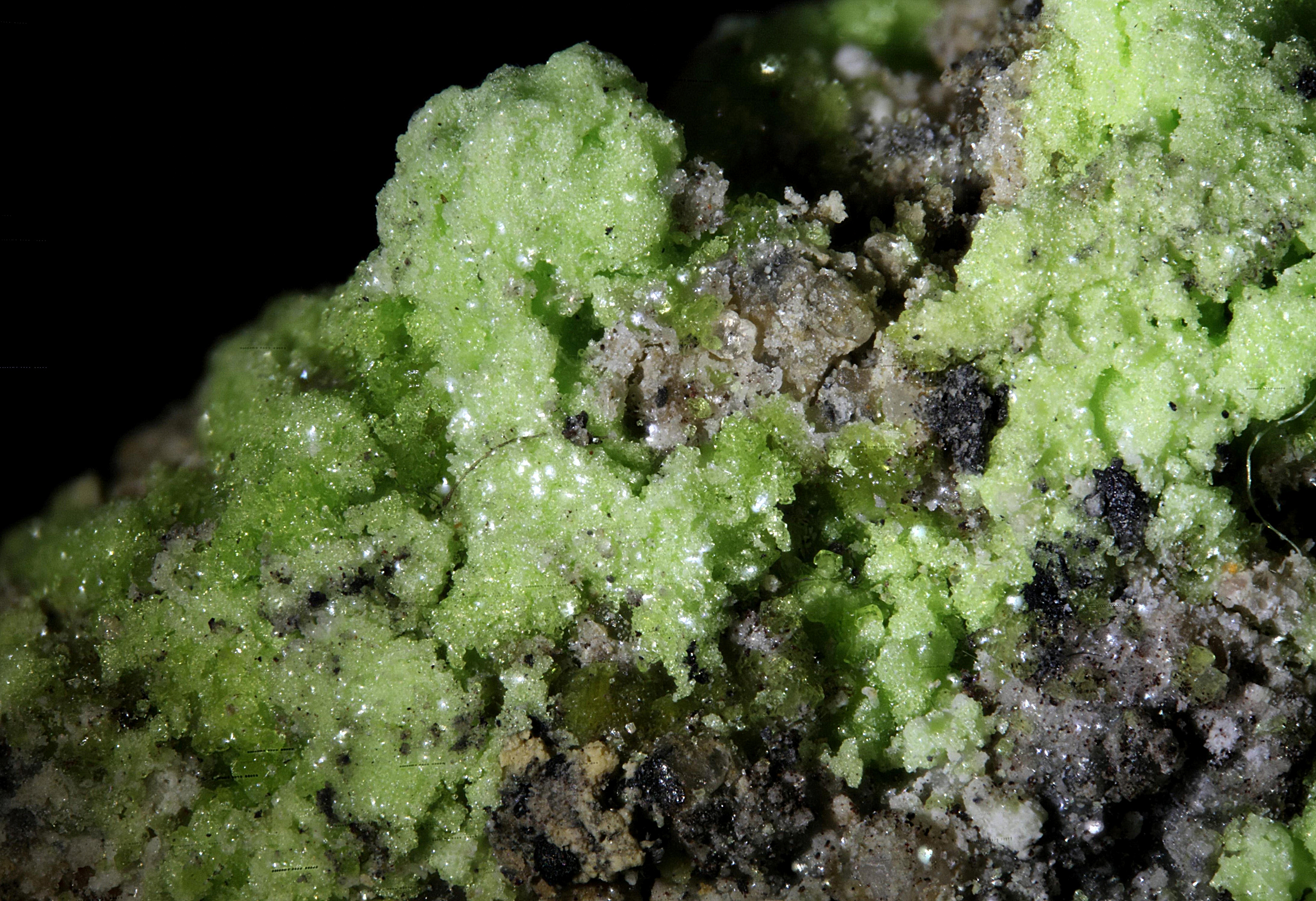 Polycrystalline johannite from Ronneburg, Thuringia, Germany